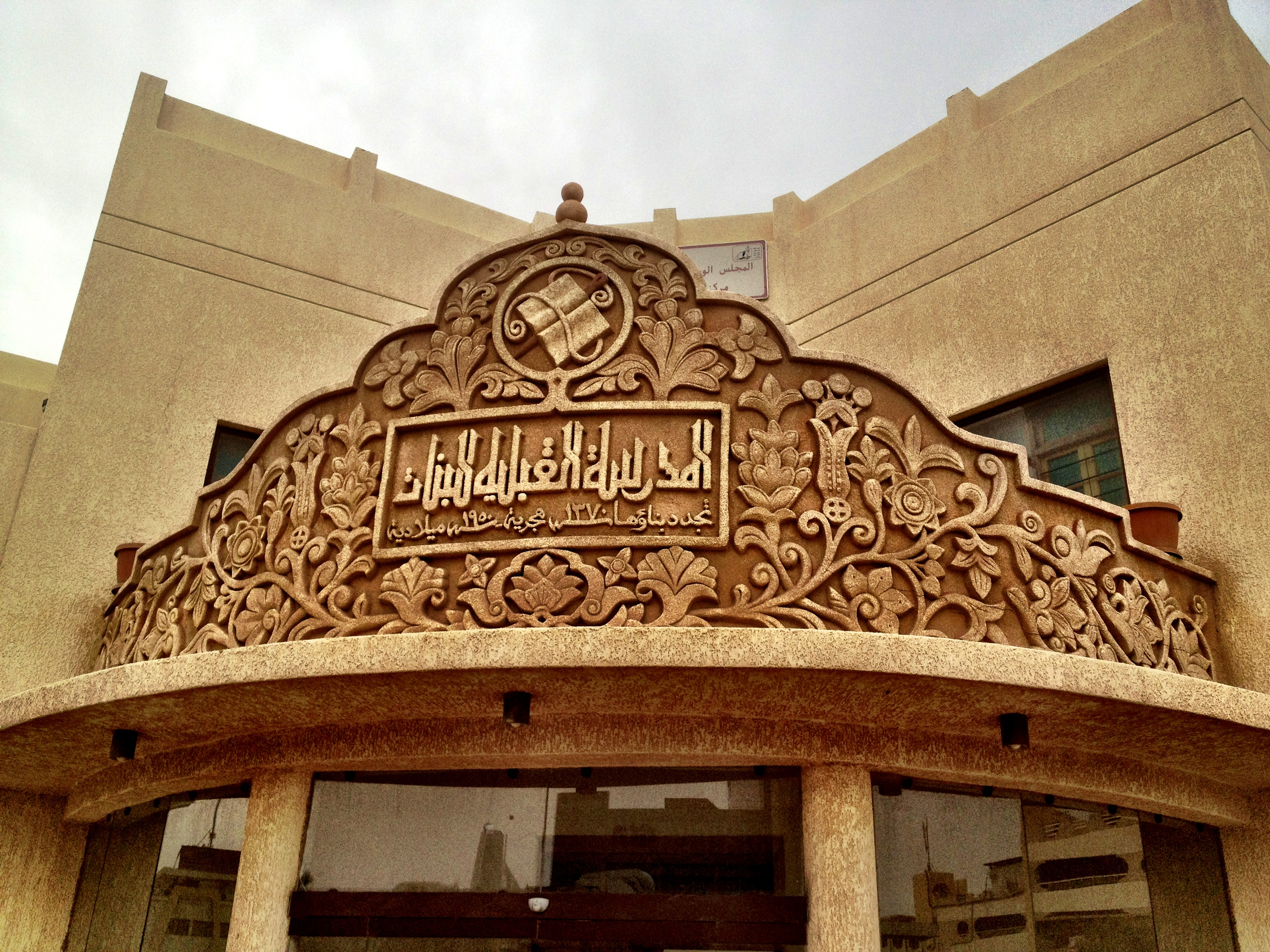 Al-qeblyah school in Kuwait city